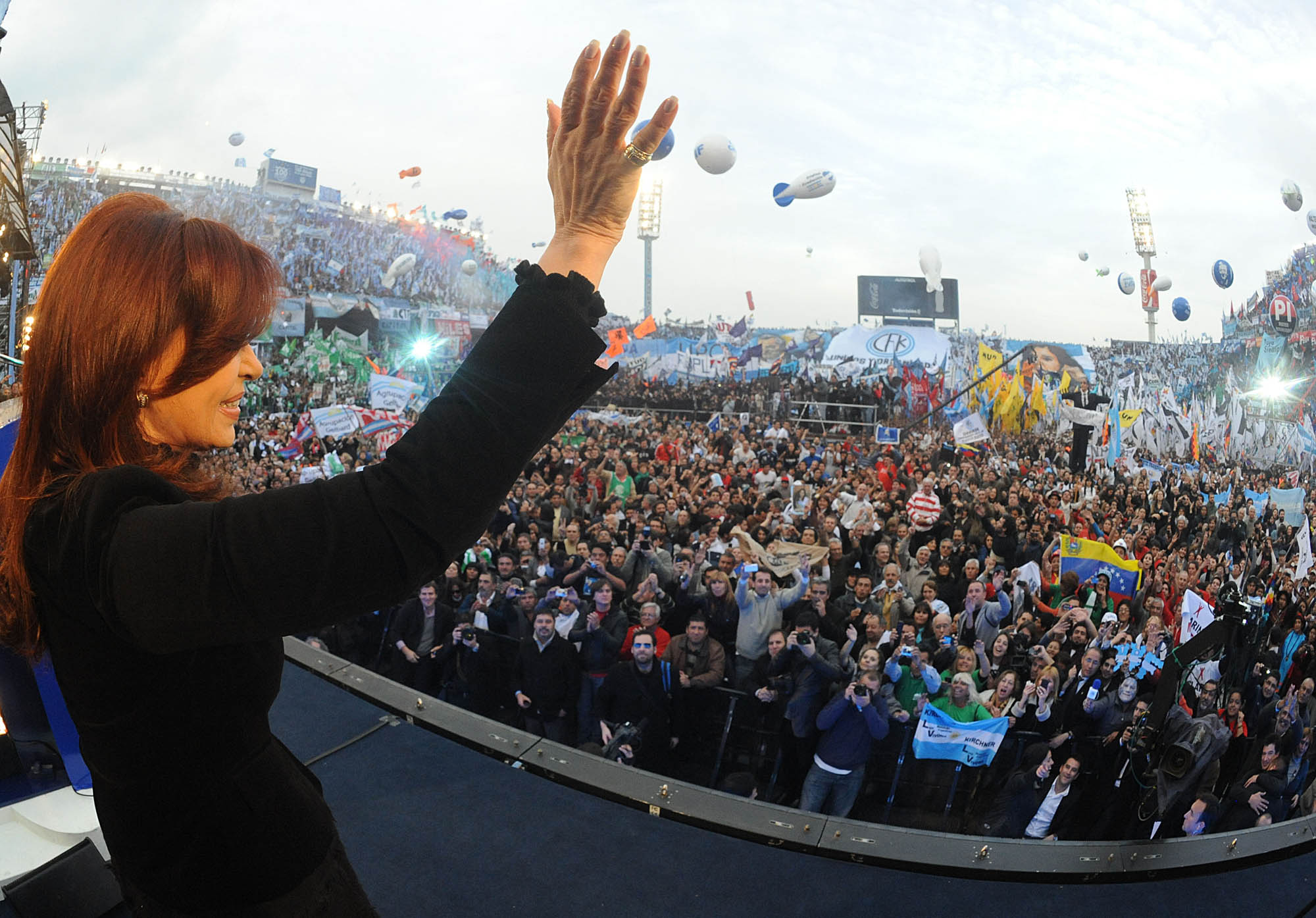 La Presidenta Cristina Fernandez de Kirchner en un encuentro con Movimientos Sociales en el estadio "José Amalfitani" (Club Atlético Vélez Sarsfield)